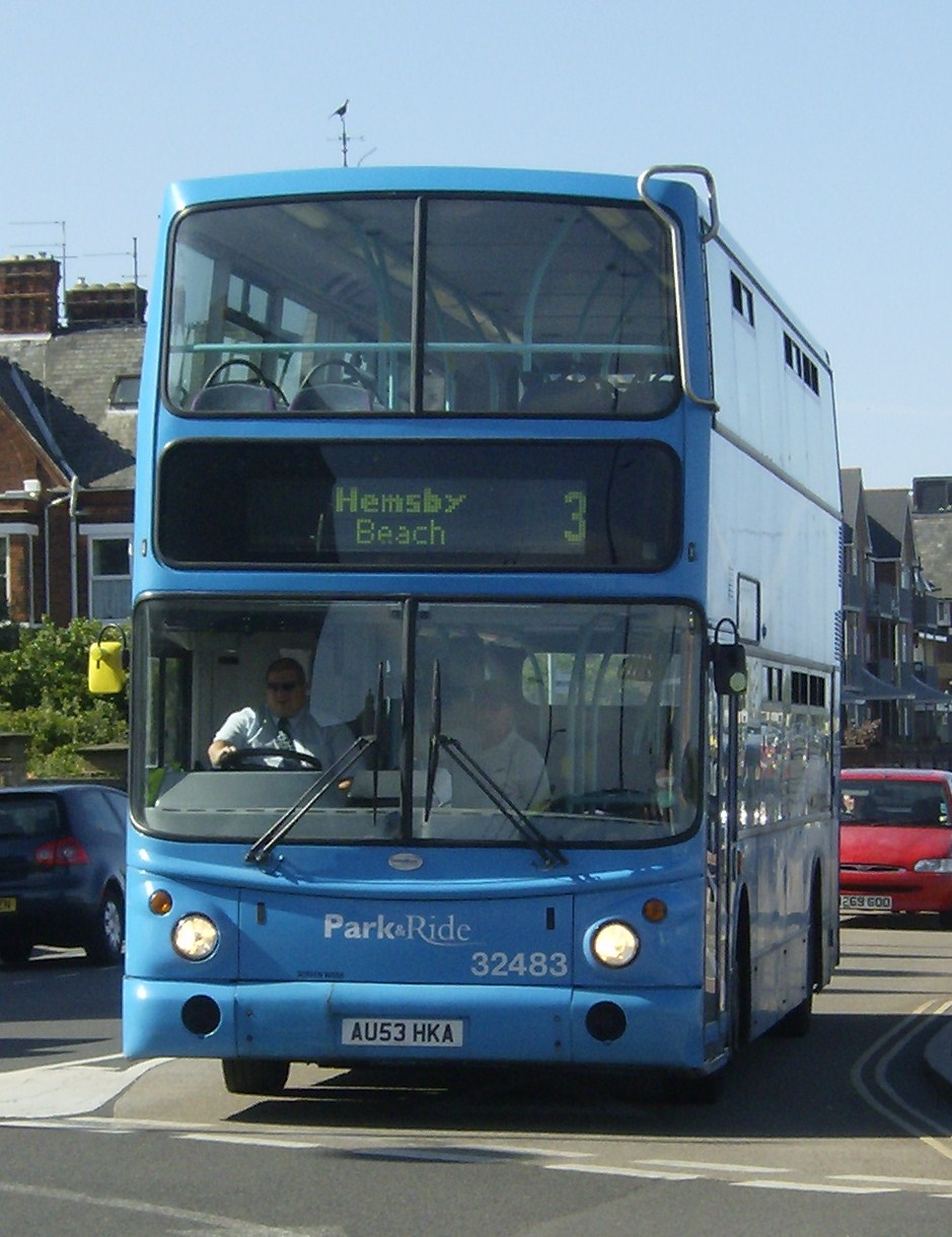 First Eastern Counties' 32483 (AU53 HKA), a Volvo B7TL/Alexander ALX400, in Great Yarmouth. It is in the livery for the Norwich park and ride service, but is seen here off normal duties on route 3.